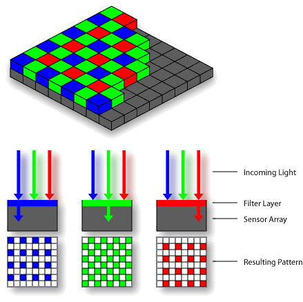 An illustration of how a bayer pattern is used to filter light as it hits a CCD. Drawn with Adobe Illustrator by Plowboylifestyle.